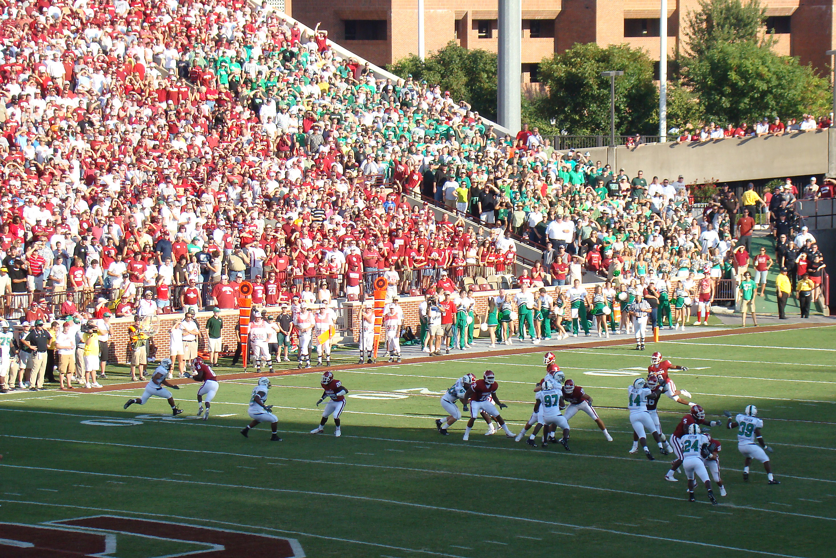 The Oklahoma Sooners football team takes on the North Texas Mean Green.